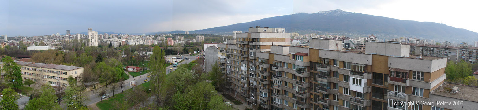 View of Sofia from the Hipodruma neighborhood, showing the Vitosha Mountain. Image taken on 21 April 2006. Author: Georgi Petrov